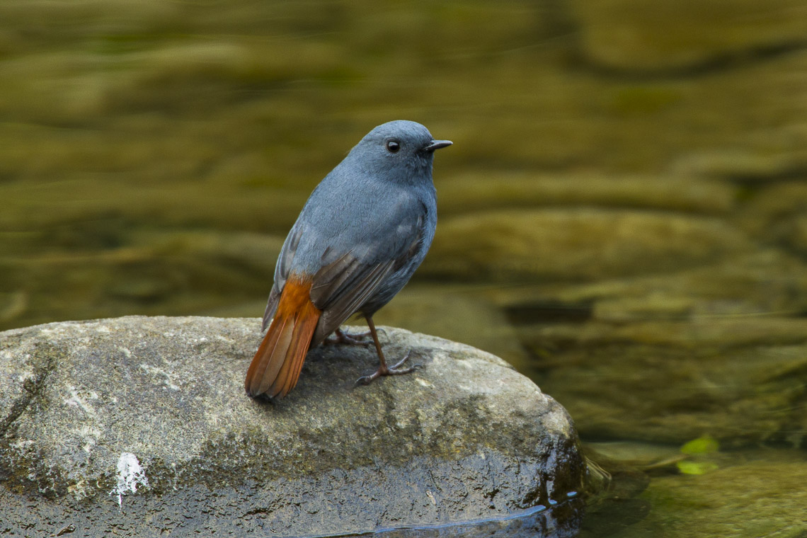 Plumbeous Redstart - Taiwan_S4E6260